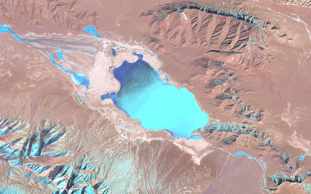 Satellite Image of Lake Heihai, Qinghai, China